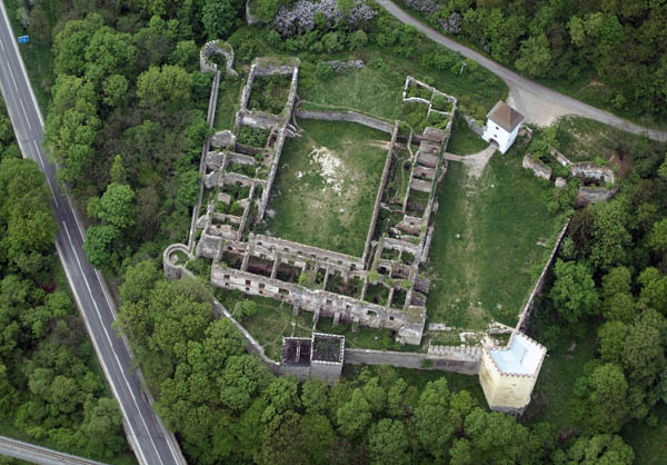 Vígľaš Castle, Slovakia, aerial photography